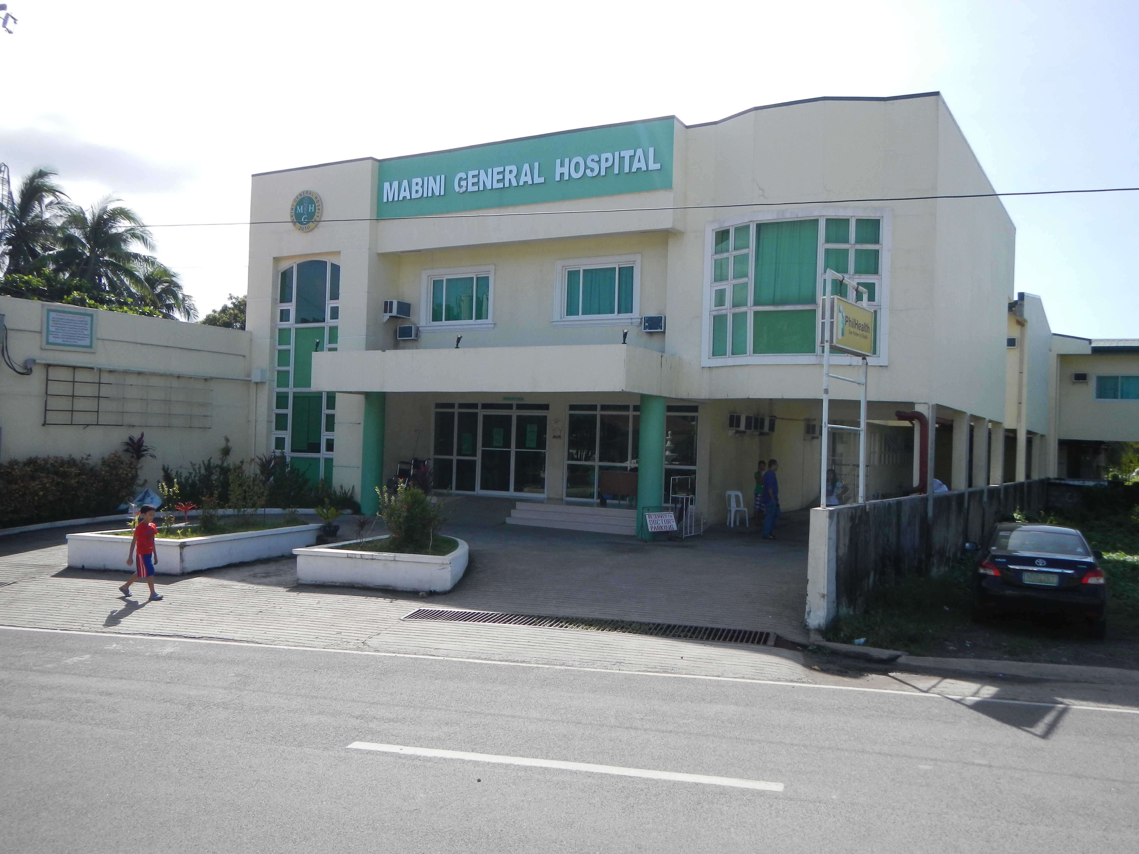 Upload Wizard photos -- (General description, 3-dimension angle by angle photography of this town, church & landmarks) -- Mabini General Hospital, in centro, crossing, junction of the Pan-Philippine or National, Maharlika Highway, with center is the Mabini Welcome statues and signs, waiting shade, bus, jeep and tricycle stop and Town Proper, Mabini Plaza, Town Hall Complex, downtown, Mabini College of Batangas, -- - Mabini, Batangas[1].